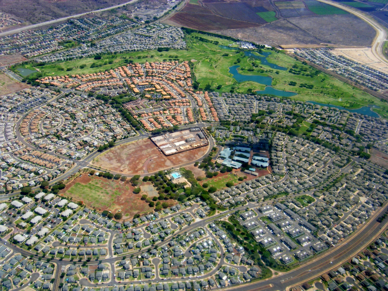 Aerial Photo of Kapolei, Oahu, Hawaii